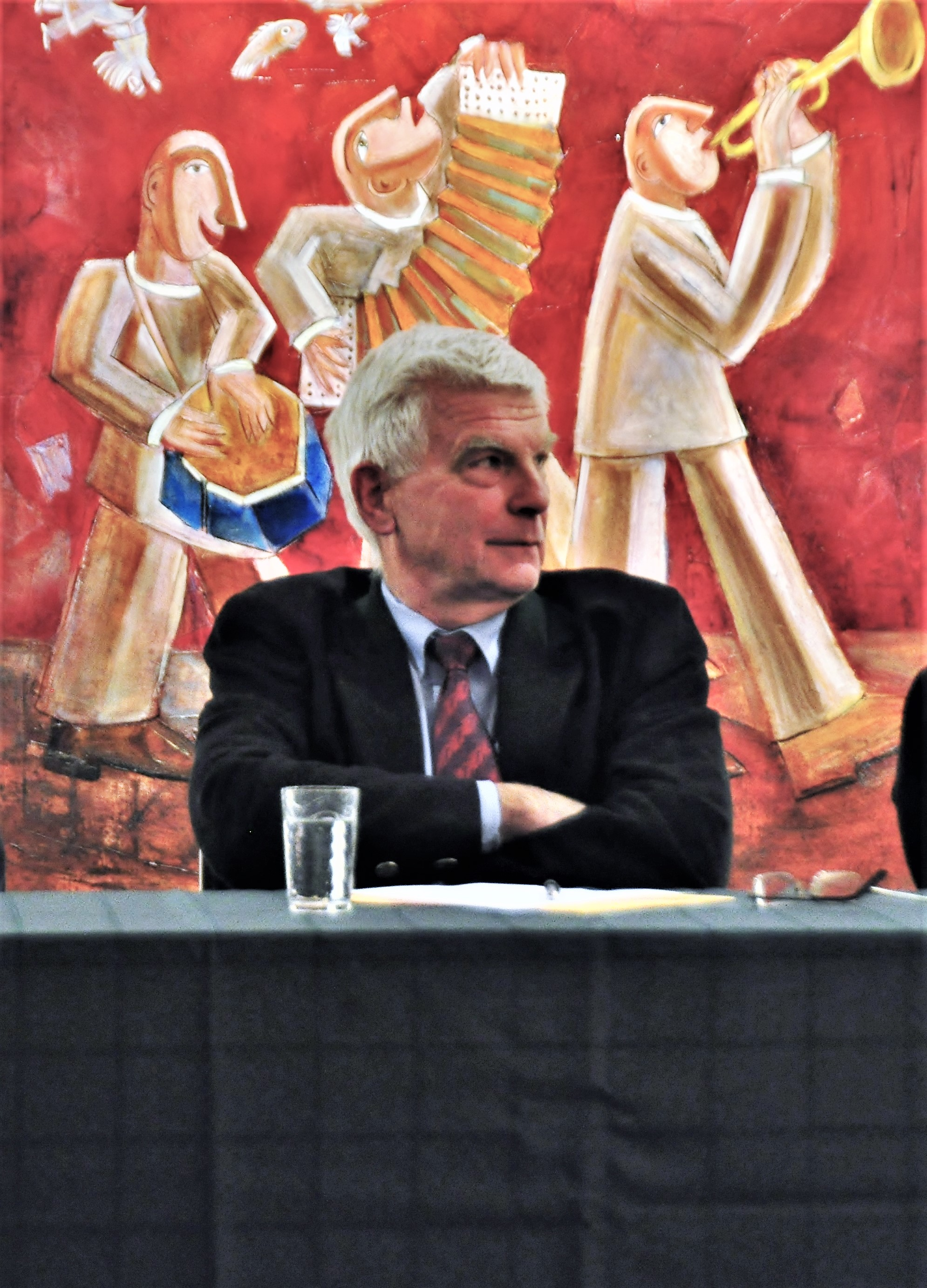 Historian Paul Robert Magocsi while presenting his book "A History of Ukraine: The Land and Its People" at the meeting of the Shevchenko Scientific Society in Toronto on December 6th, 2013